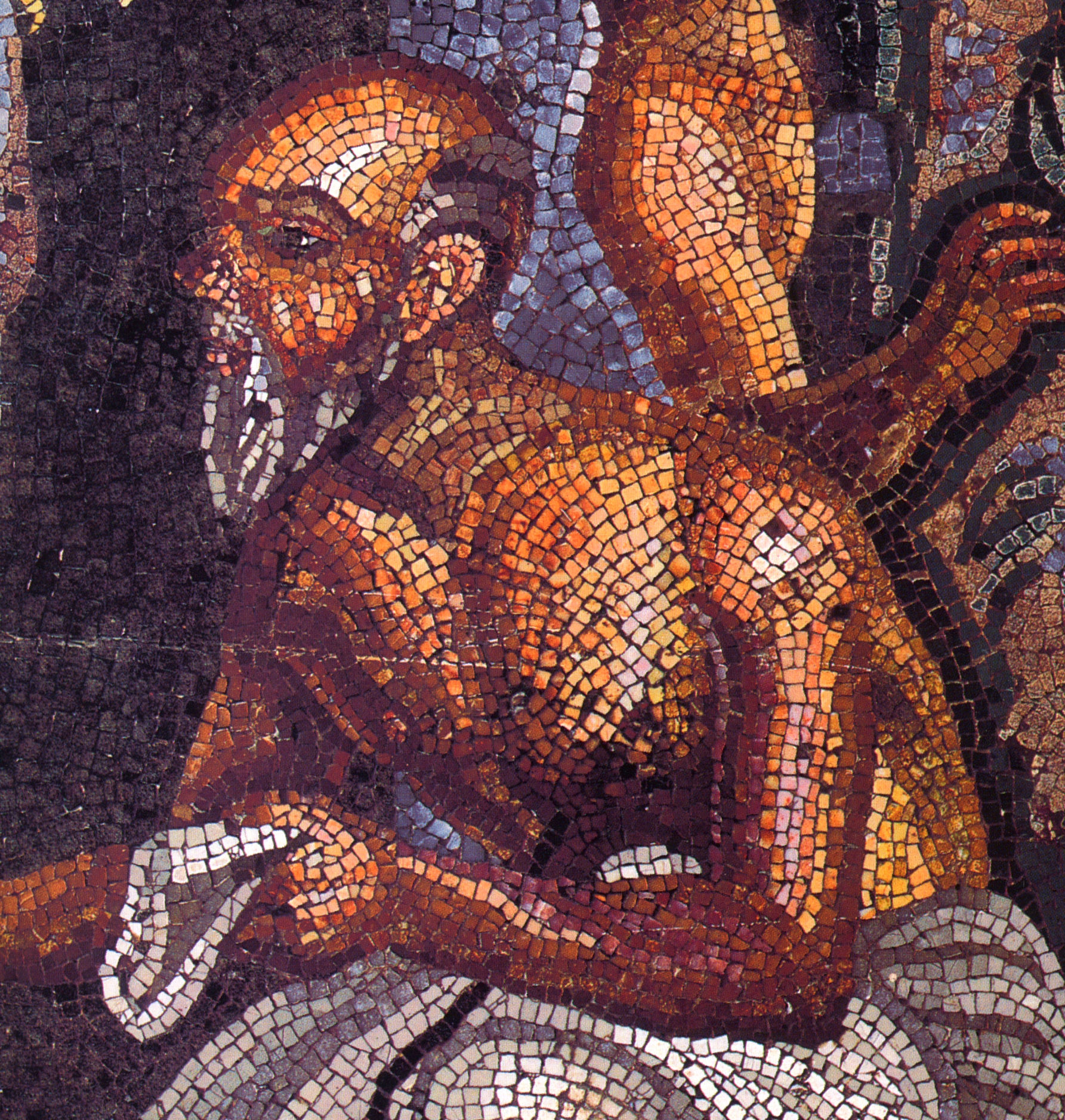 Detail of a poet giving directions from a theatrical scene. Roman mosaic from the tablinum Casa del Poeta tragico (VI 8, 3-5) in Pompeii. Museo Archeologico Nazionale (Naples).